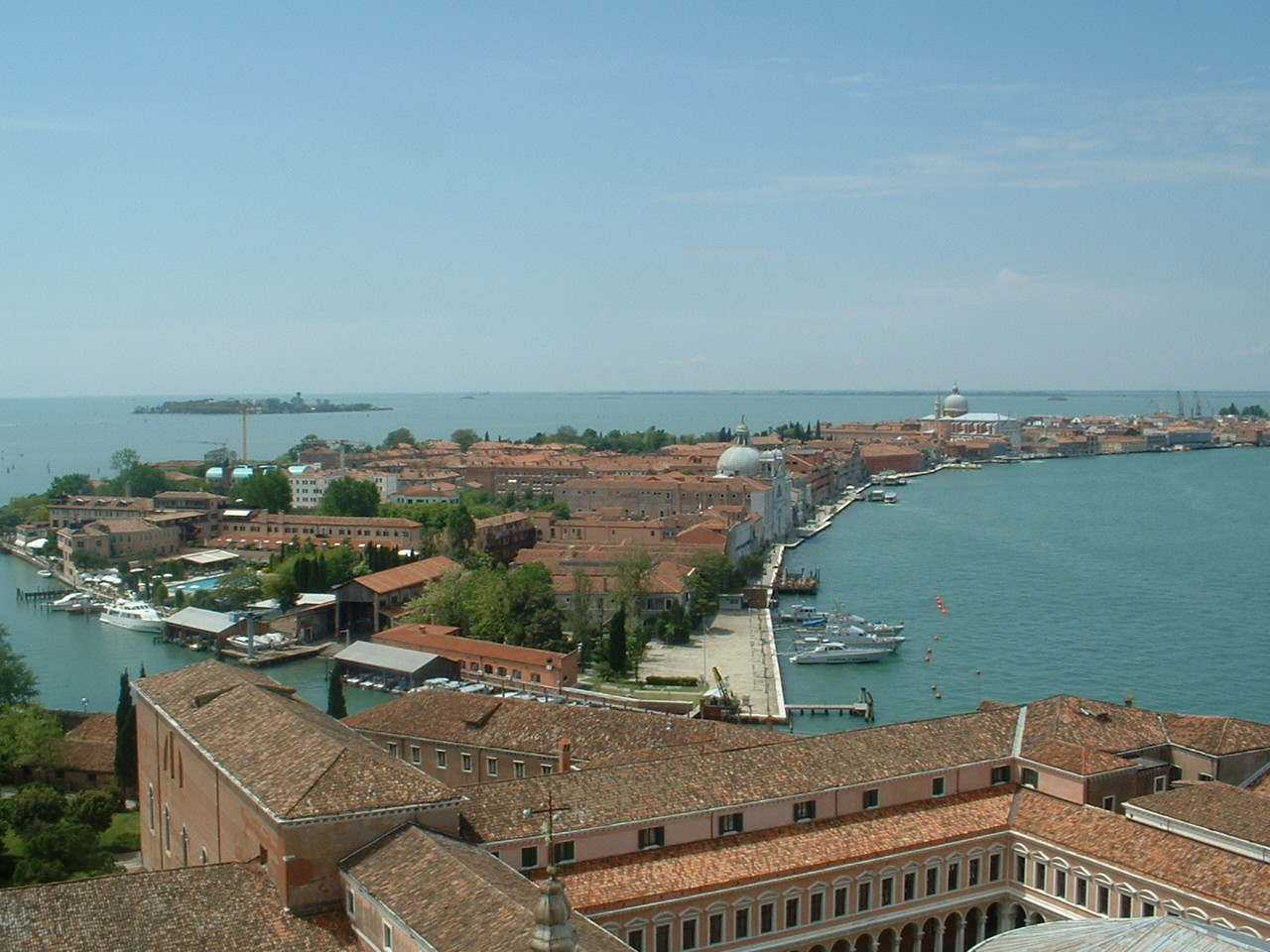 Giudecca, Venice, from the campanile of the Church of San Giorgio Maggiore. Photo taken by Necrothesp, 15 May 2004.